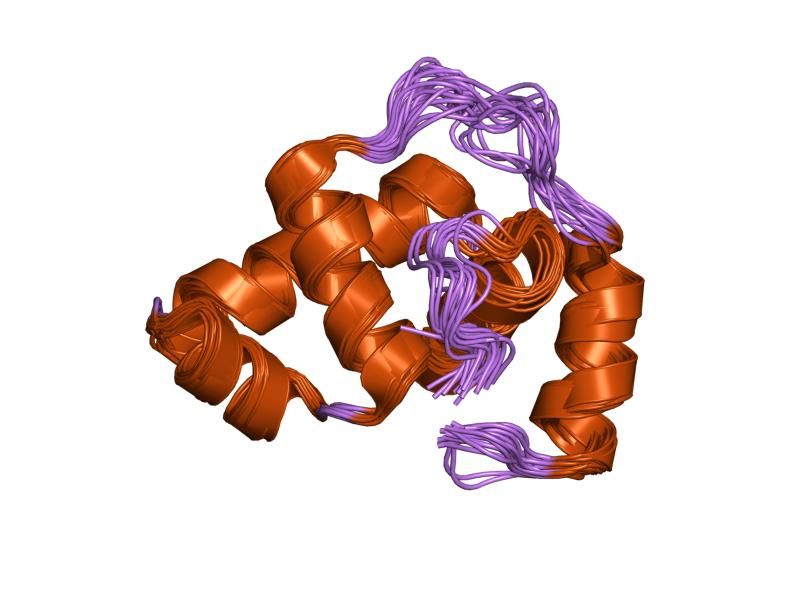 Cartoon representation of the molecular structure of protein registered with 1p4w code.